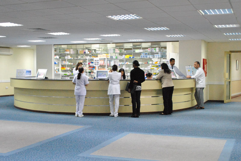 The IHB 24-hour Pharmacy